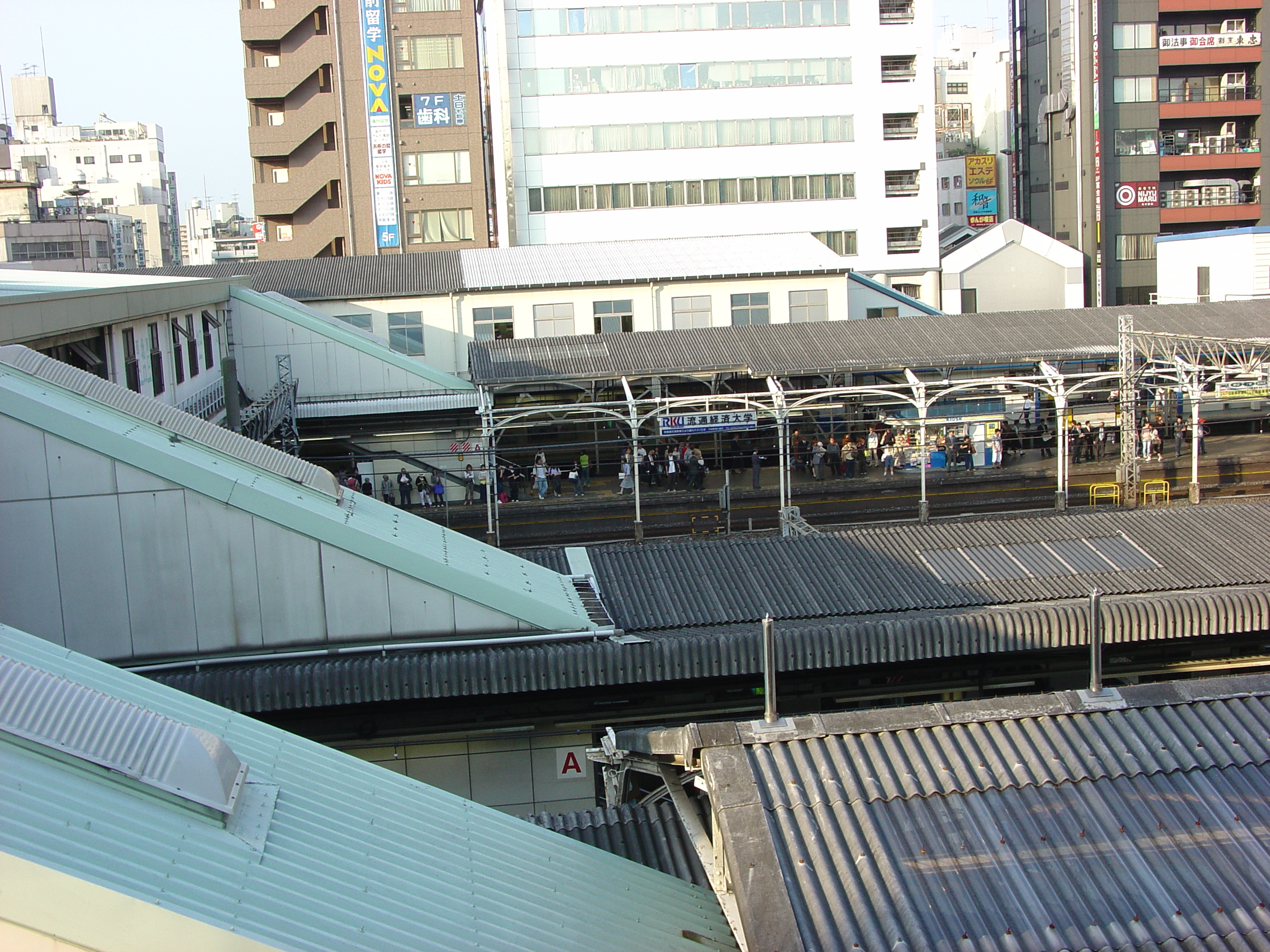 Elevated view of Nippori Station, Tokyo, Japan taken from the Yanaka Cemetery side. People are visible on JR East Platform 3 and 4. The Keisei platform is the next platform behind.